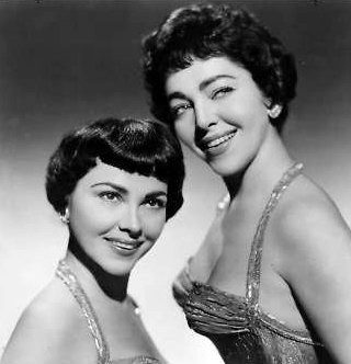 Publicity photo of the Barry Sisters, Clare (left) and Merna (right).